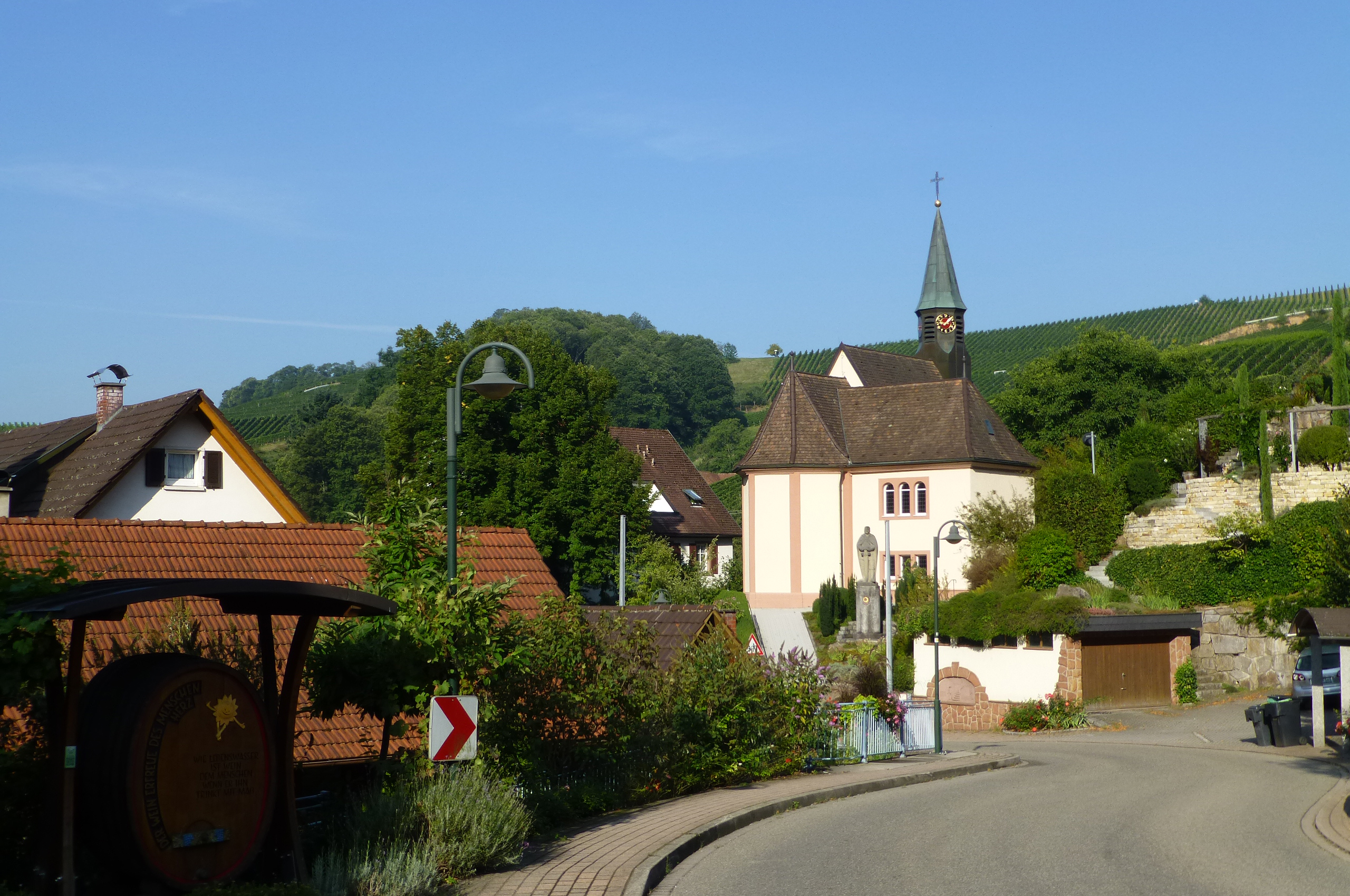 Church and Vineyards in Ringelbach, village in the northern part of Oberkirch, Baden.